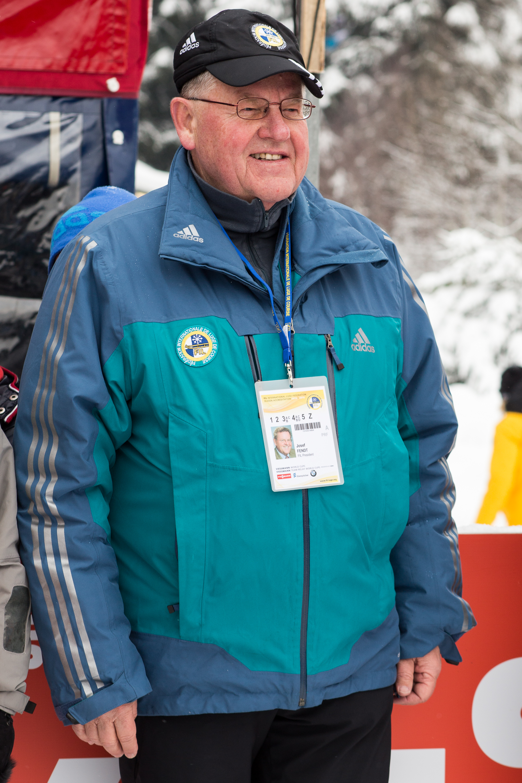 Luge world cup Oberhof 2016-01-16 Josef Fendt